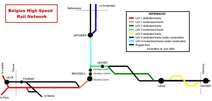 Belgin High Speed Railway Network Year 2009